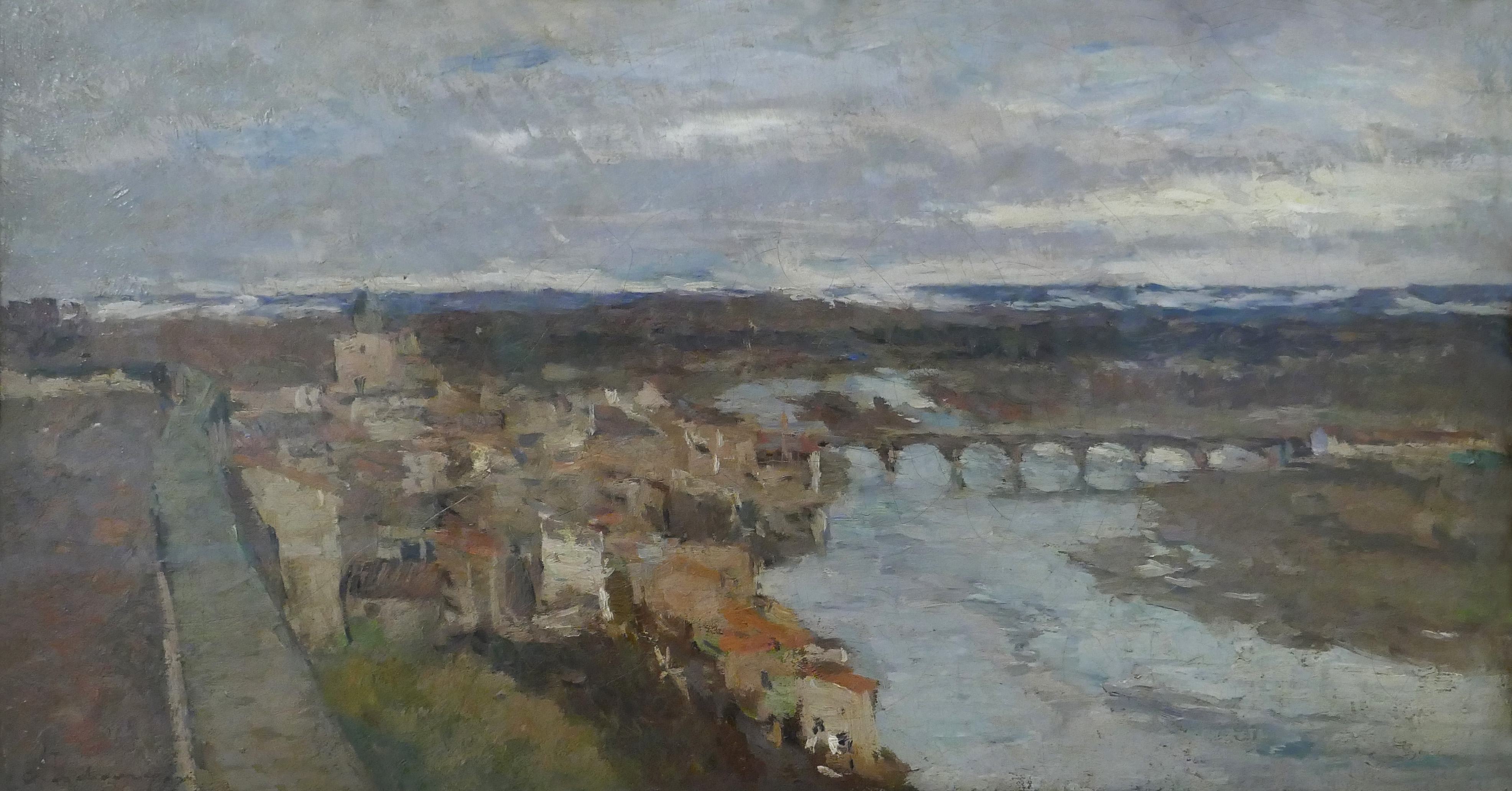 Albert Lebourg, View of Pont-du-Château, ca. 1885-1886. Oil on canvas. Hermitage Museum, St. Petersburg. Acquired in 1923 by the State Museum Fund. This is a faithful photographic reproduction of a two-dimensional, public domain work of art. The work of art itself is in the public domain for the following reason: The author died in 1928, so this work is in the public domain in its country of origin and other countries and areas where the copyright term is the author's life plus 80 years or fewer. You must also include a United States public domain tag to indicate why this work is in the public domain in the United States. Note that a few countries have copyright terms longer than 80 years: Mexico has 100 years, Jamaica has 95 years. This image may not be in the public domain in these countries, which moreover do not implement the rule of the shorter term. Côte d'Ivoire has a general copyright term of 99 years, but it does implement the rule of the shorter term. This file has been identified as being free of known restrictions under copyright law, including all related and neighboring rights. The official position taken by the Wikimedia Foundation is that "faithful reproductions of two-dimensional public domain works of art are public domain".This photographic reproduction is therefore also considered to be in the public domain in the United States. In other jurisdictions, re-use of this content may be restricted; see Reuse of PD-Art photographs for details.